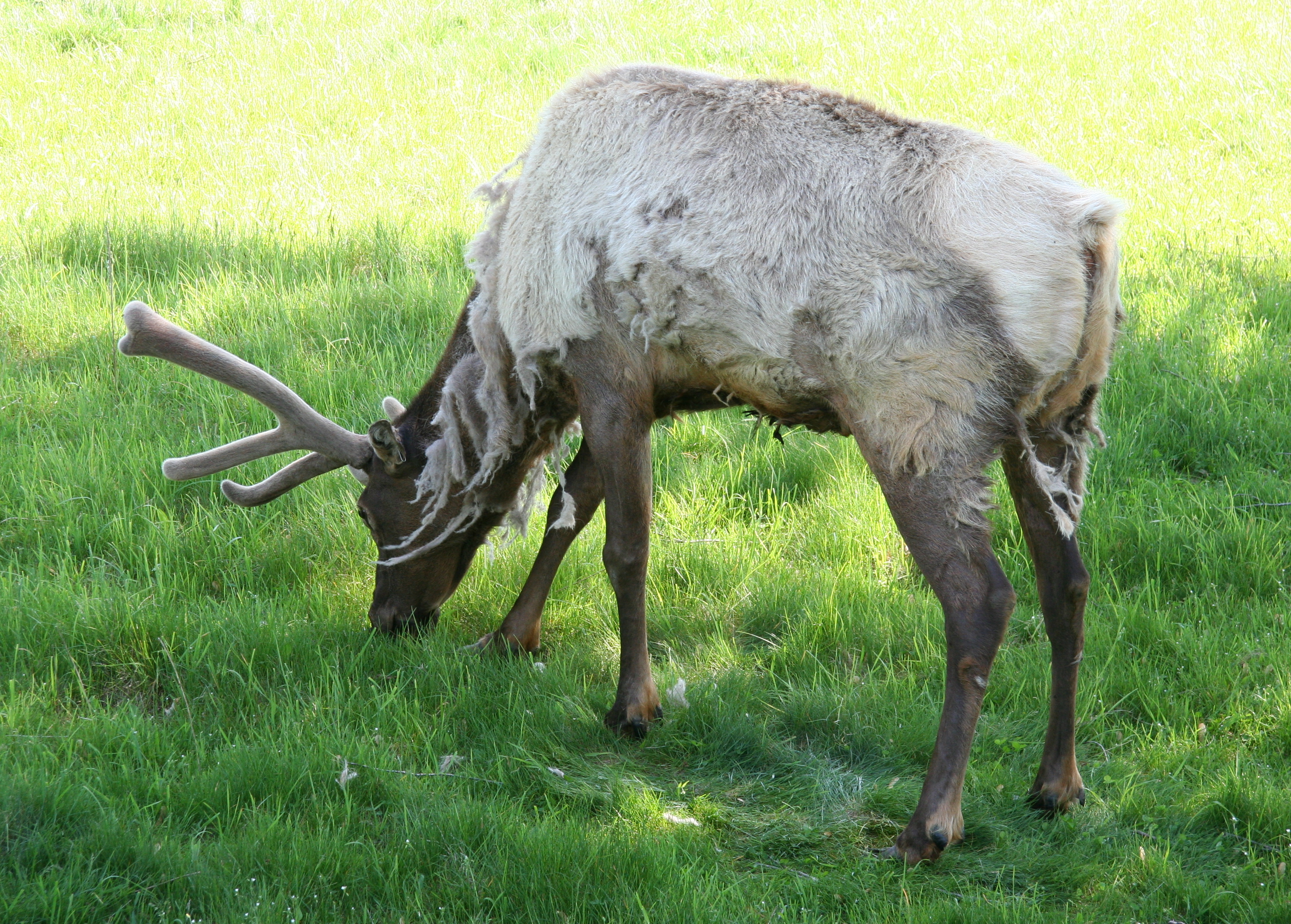 A caribou in spring. Like elk, caribou shed their winter coats and have antlers covered in velvet during growth. This individual is grazing in Zollman Zoo in Oxbow Park, Olmsted County, Minnesota